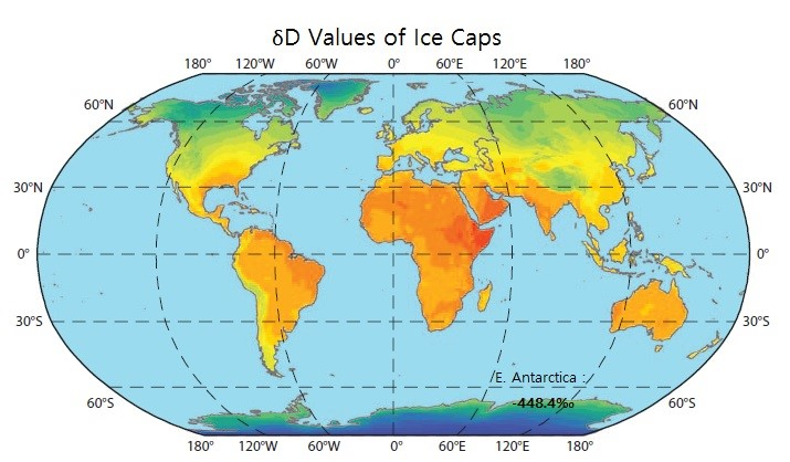 Modified by inserting data values on the map from Annu.Rev.Earth Planet.Sci.2010.38:161-187